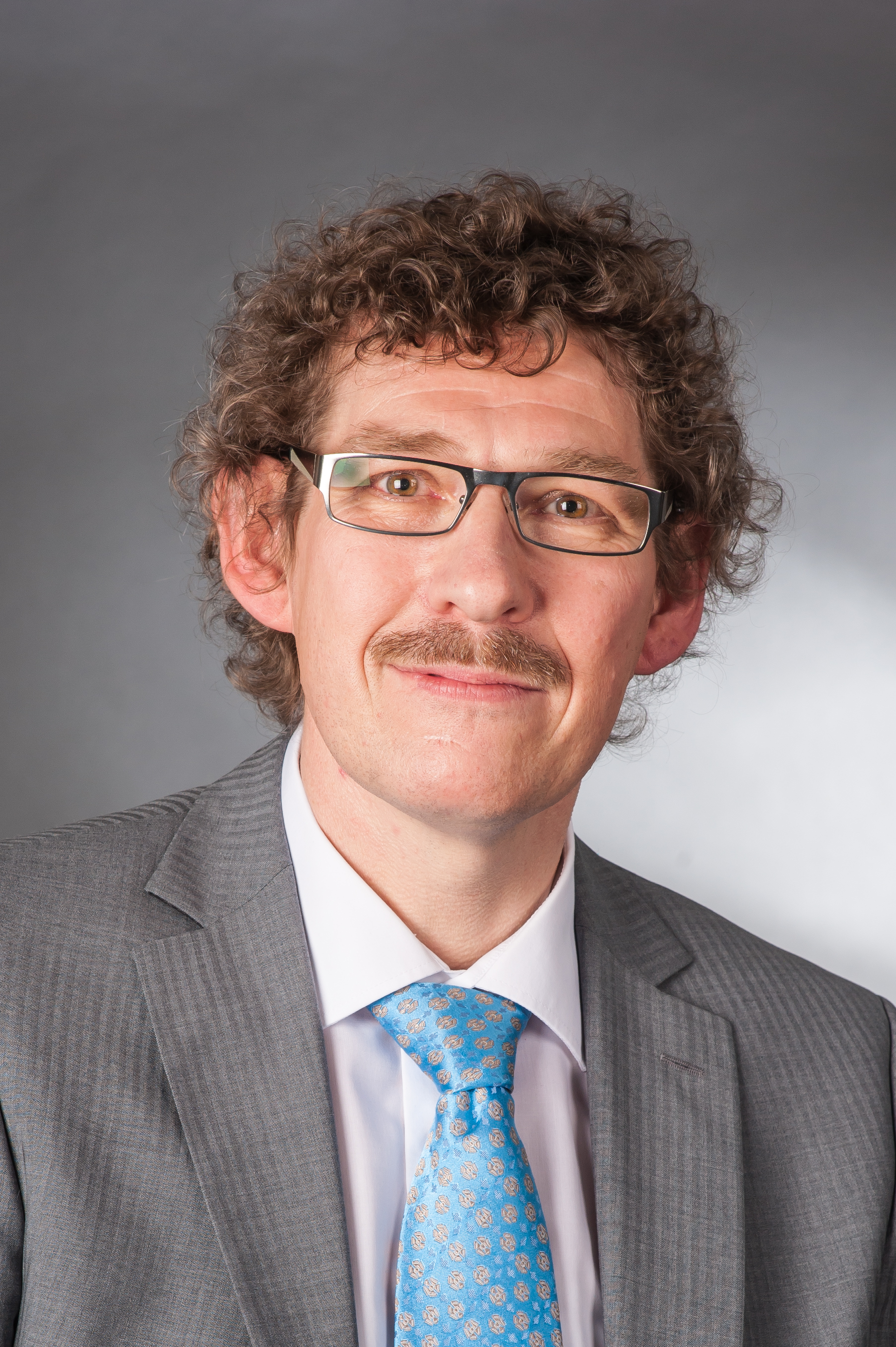 Wikipedia im Landtag – Niedersachsen 17. bis 18. April 2013 in Hannover Personality rights warningAlthough this work is freely licensed or in the public domain, the person(s) shown may have rights that legally restrict certain re-uses unless those depicted consent to such uses. In these cases, a model release or other evidence of consent could protect you from infringement claims.